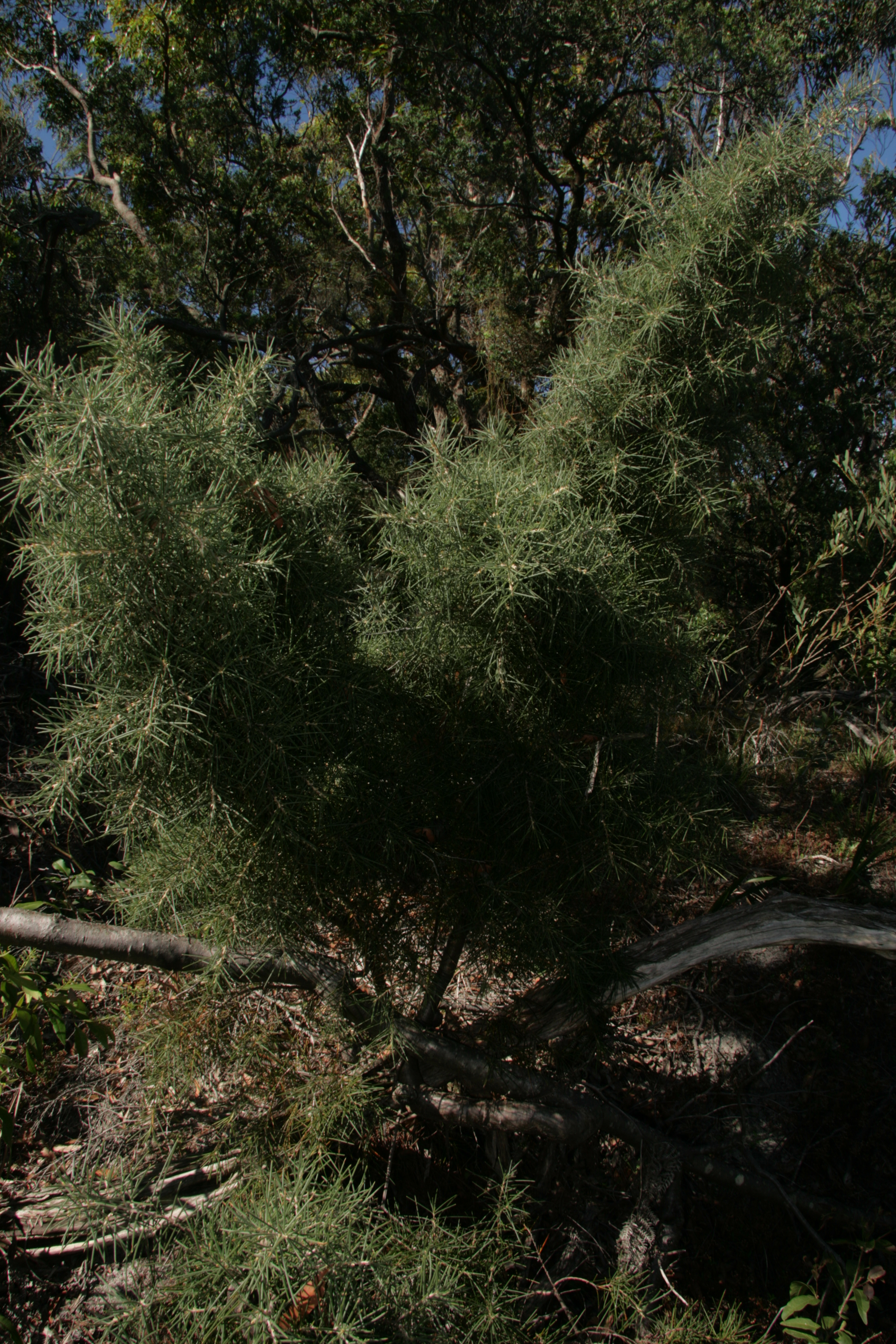 Hakea gibbosa, habit (Botany Bay National Park, near Henry Head Lane NW of Golf Club)